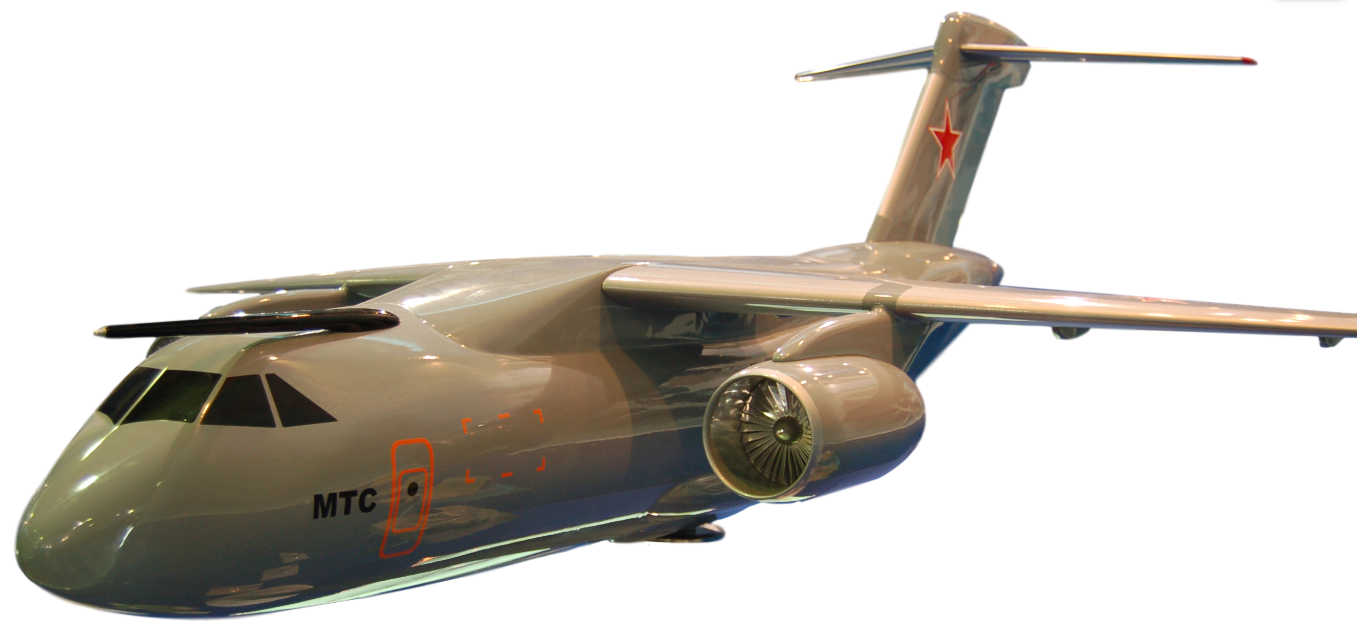 Ilyushin Il-214 model, background clipped